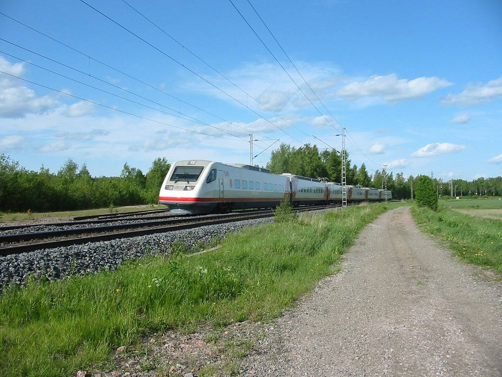 A VR Class Sm3 Pendolino train in railway line between Helsinki and Turku, Finland.